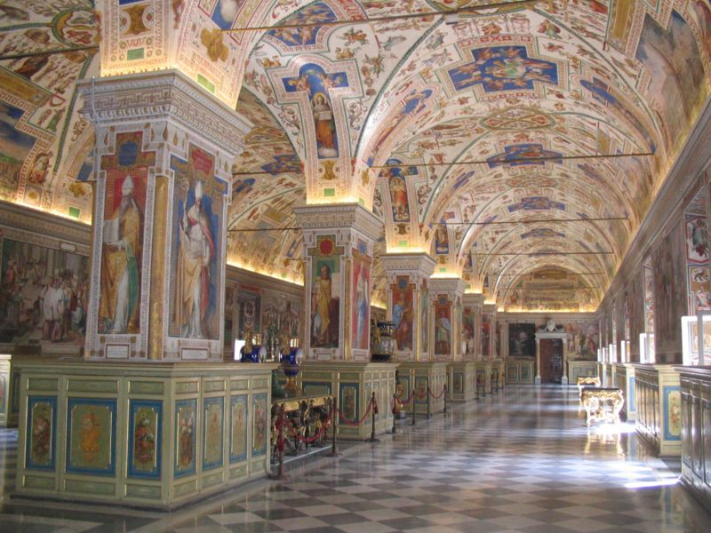 The Sistine Hall of the Vatican Library.